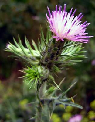 Carduus tenuiflorus, florets capitula - L'Authion riverbank at Levée Napoléon, Les Ponts-de-Cé, Maine-et-Loire, Pays-de-la-Loire (France)